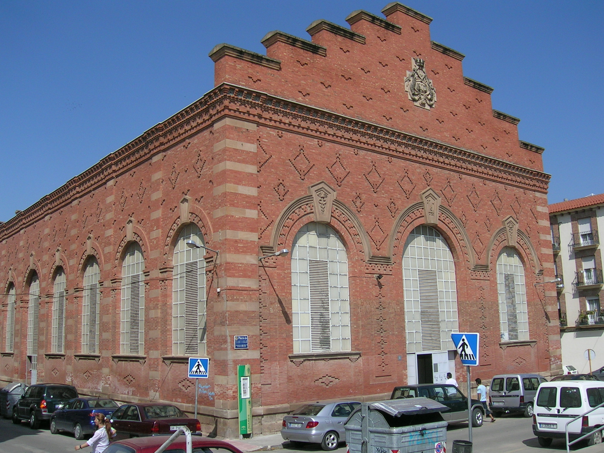 Linares Fish Market; a characteristic building, with an architecture usual in Linares mixing red brick with carved stone